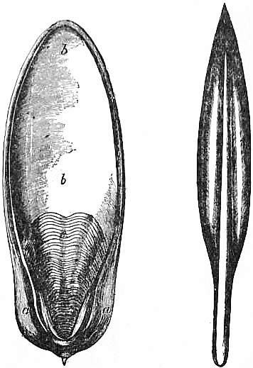 Cephalopoda Fig. 20 & Fig. 21—Sepia officinalis & Lohgo from Encyclopædia Britannica 1911